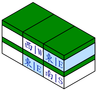 showing how to draw 13th tile in three player